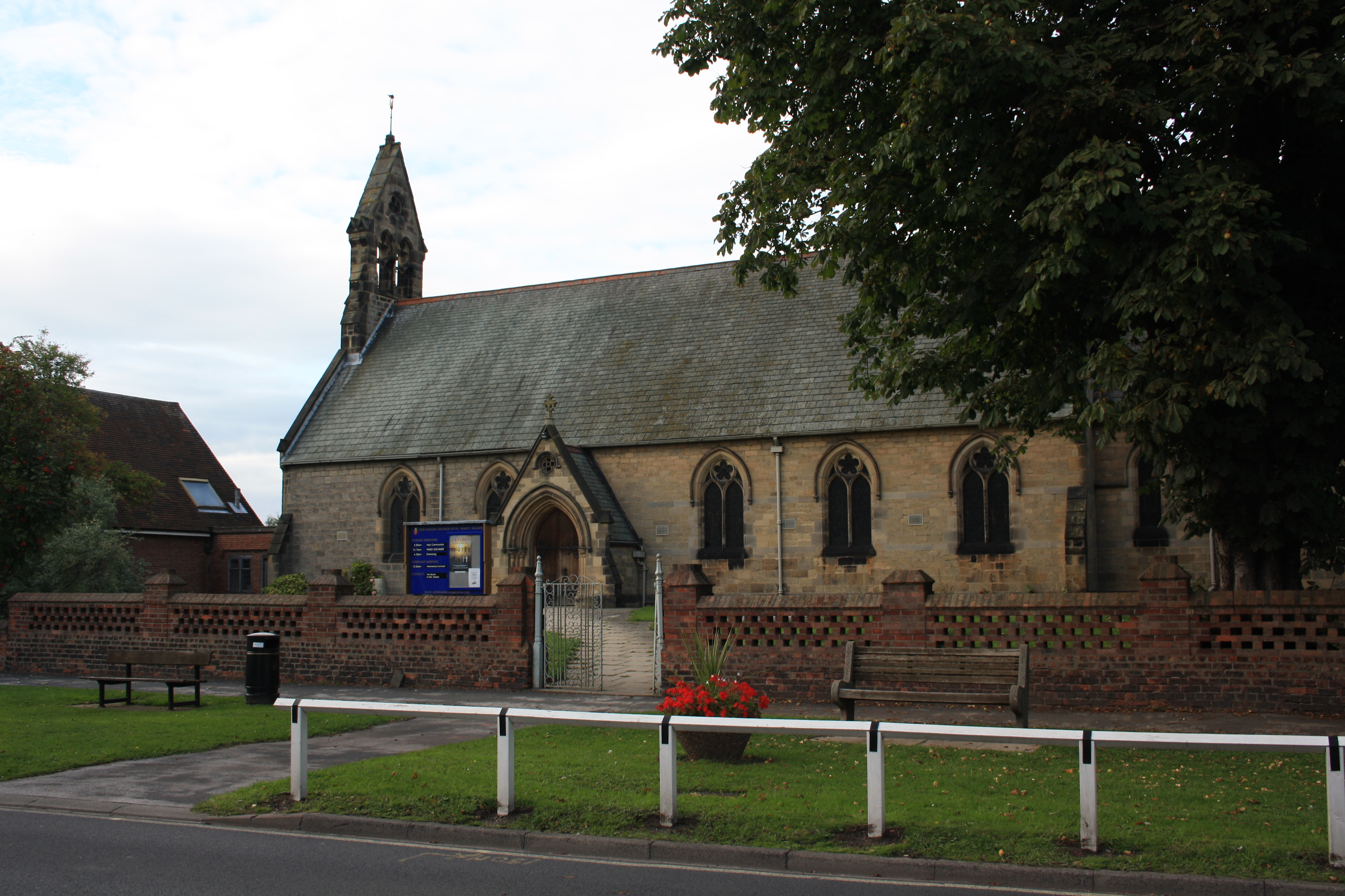 St Marys Church, Haxby